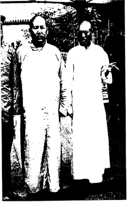 Qing dynasty,and later Republic of China Chinese muslim General Ma Fuxiang(Ma Fu-hsiang). with Wu Peifu吴佩孚 warlord in Republican China from 1916 to 1927. , the Little "General"